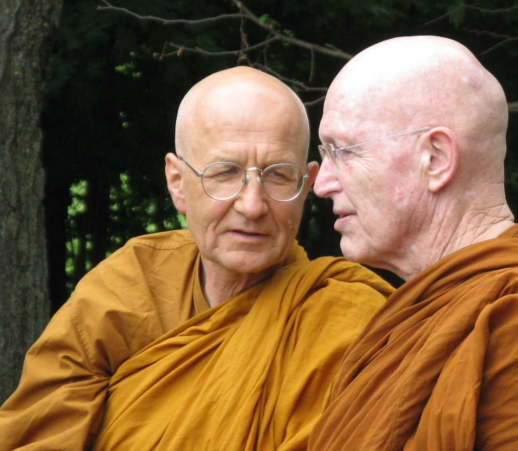 Luang Por Viradhammo and Luang Por Sumedho, in Perth, Ontario, May 2010